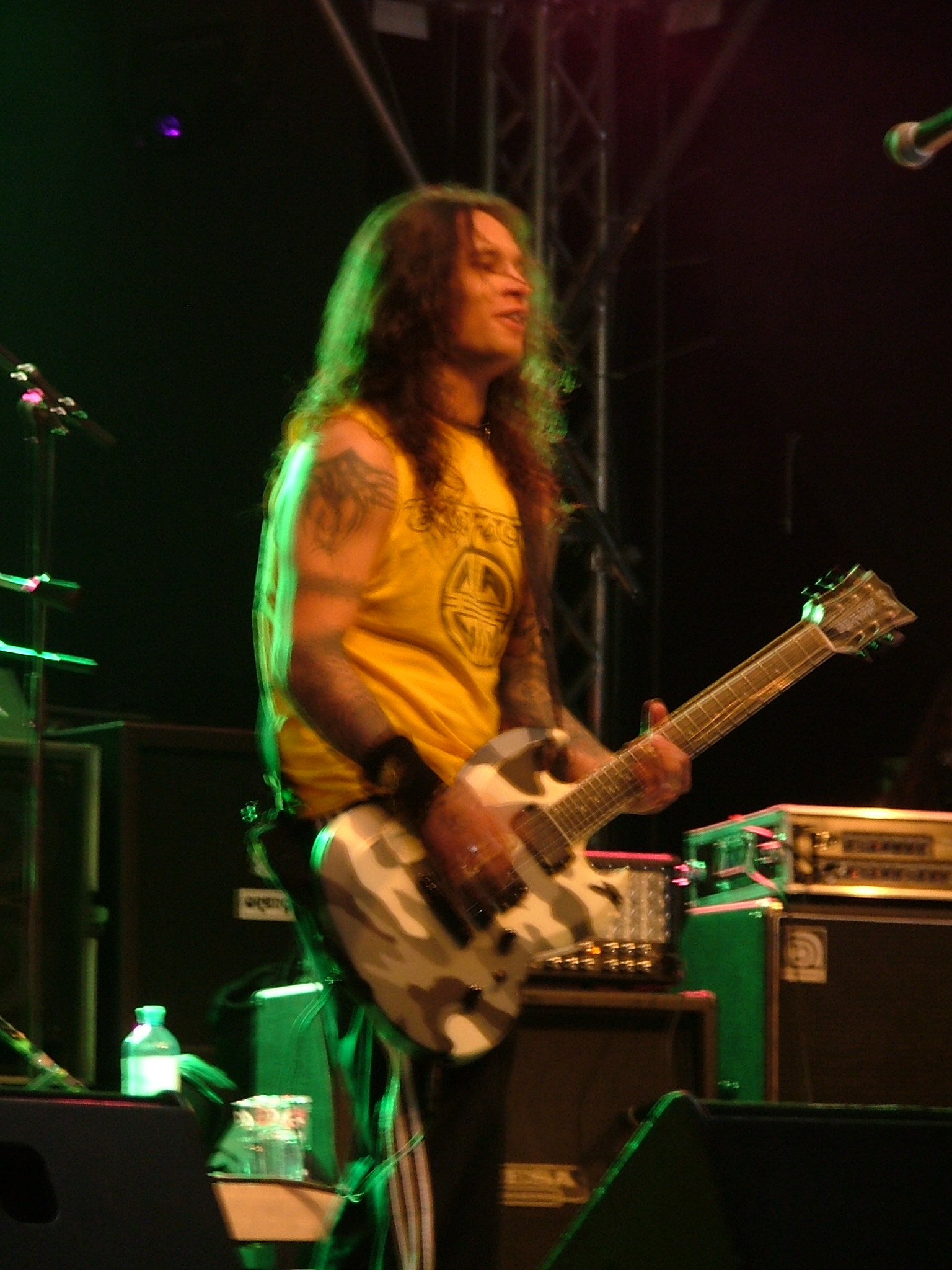 Hungarian thrash metal band Ektomorf at 'Rock the Lake' in Finkenstein am Faaker See